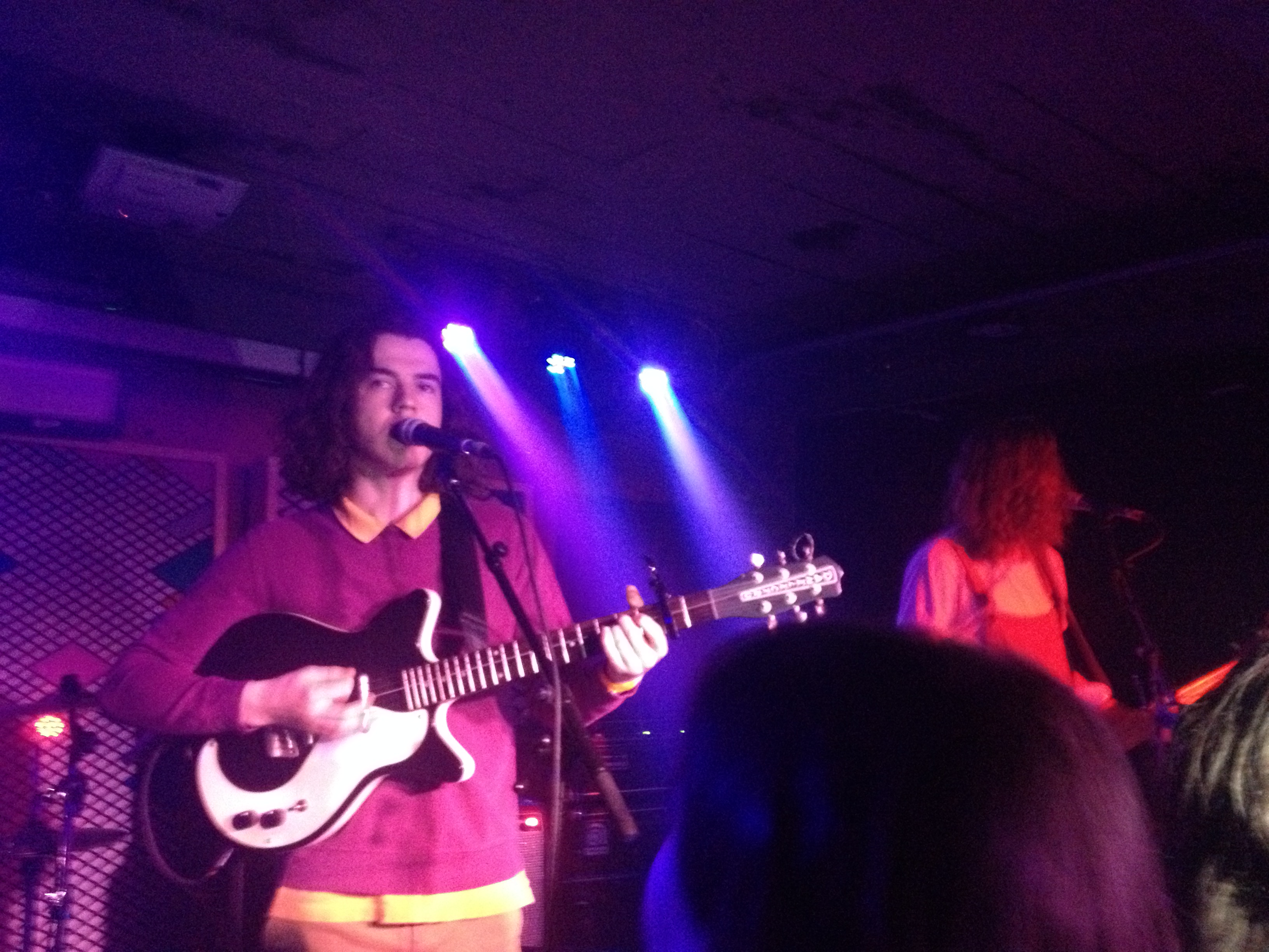 Peach Pit performing in 2018